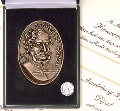 Gyula Andrássy prize